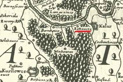 Part of Beauplan's map showing Rotkowcze (present Rudkivci, Ukraine) on the Dnister river. Note that south is up on this map.